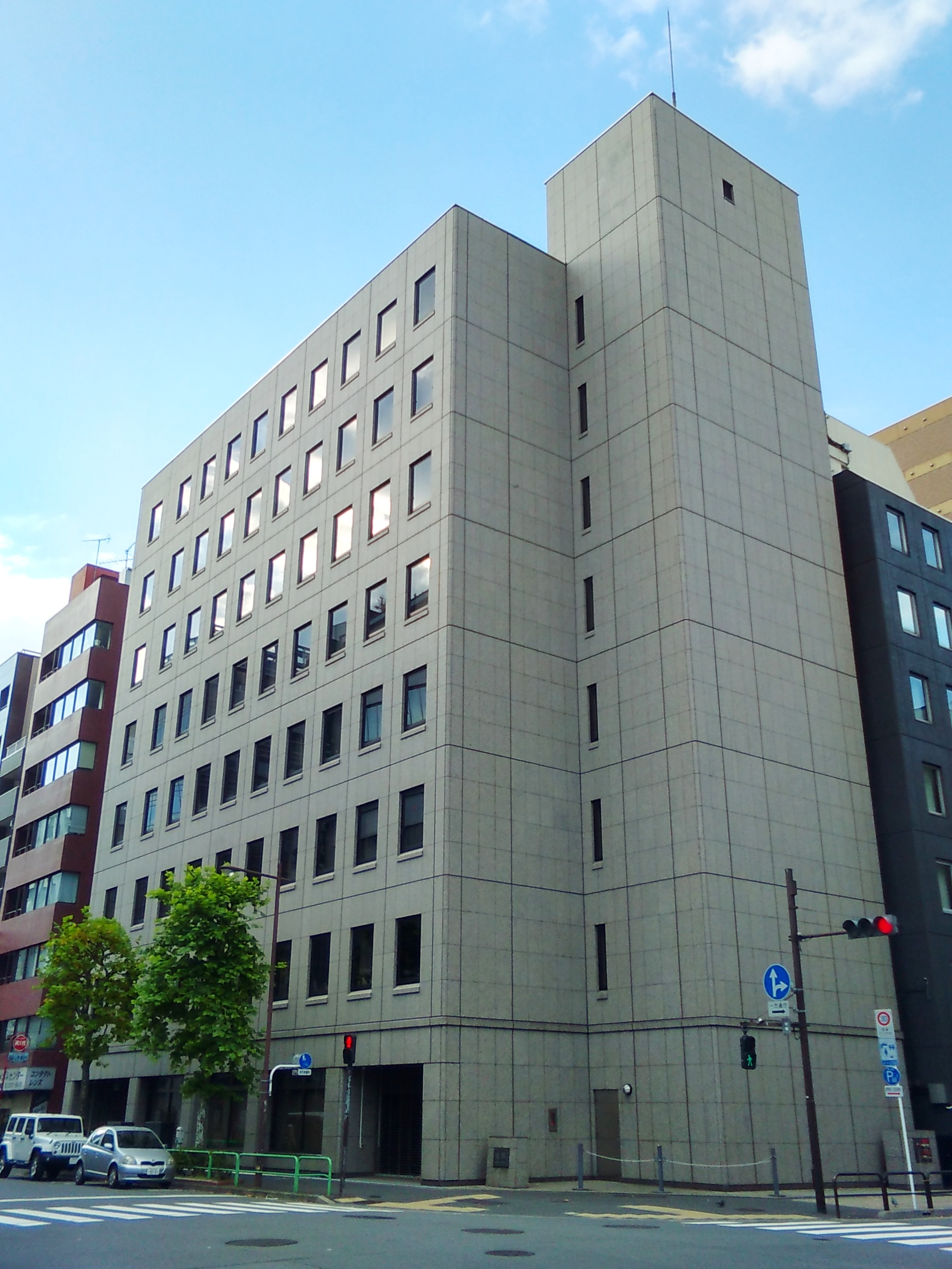 Kanda Shinko Building viewed from the south east, located in Kanda-Tacho, Chiyoda-ku, Tokyo, Japan.